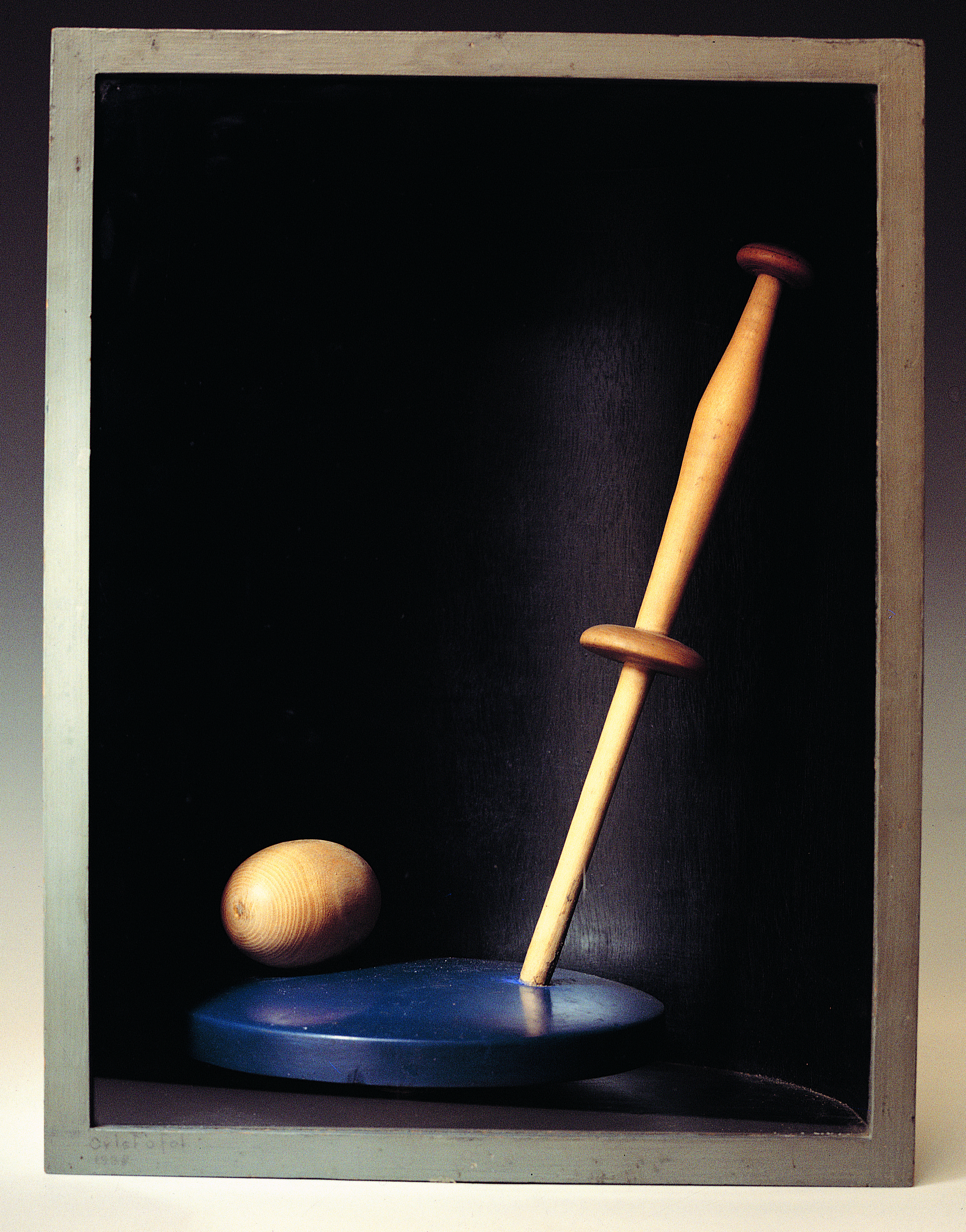 Nit de Lluna, artwork by Catalan artist Leandre Cristòfol